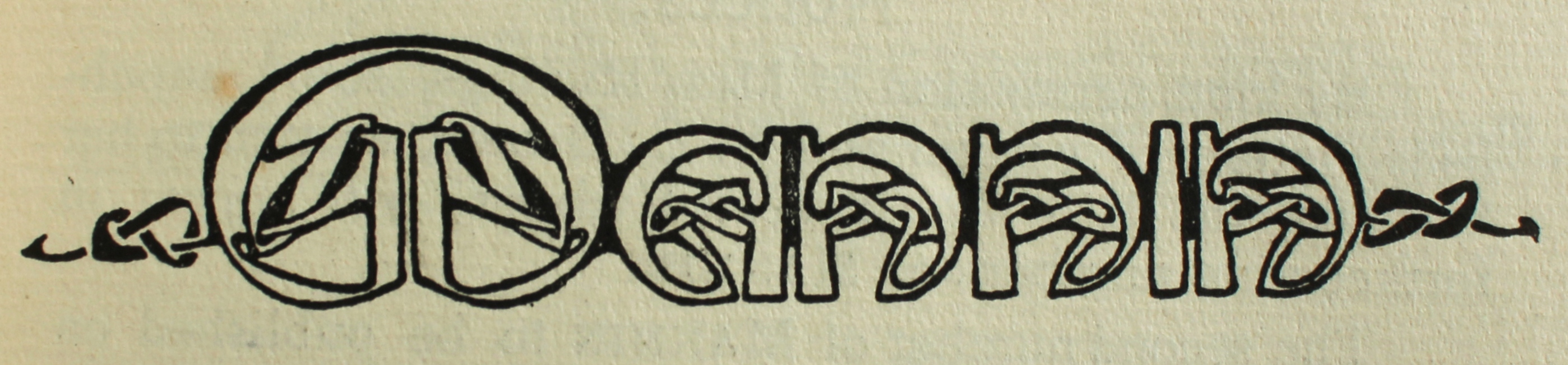 Mannin: Journal of Matters Past and Present relating to Mann, edited by Sophia Morrison, published for nine volumes between 1913 and 1917. The art work is Archibald Knox.